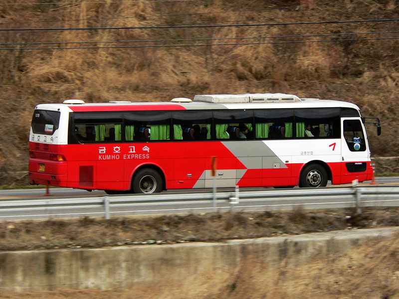 Kumho Express Bus